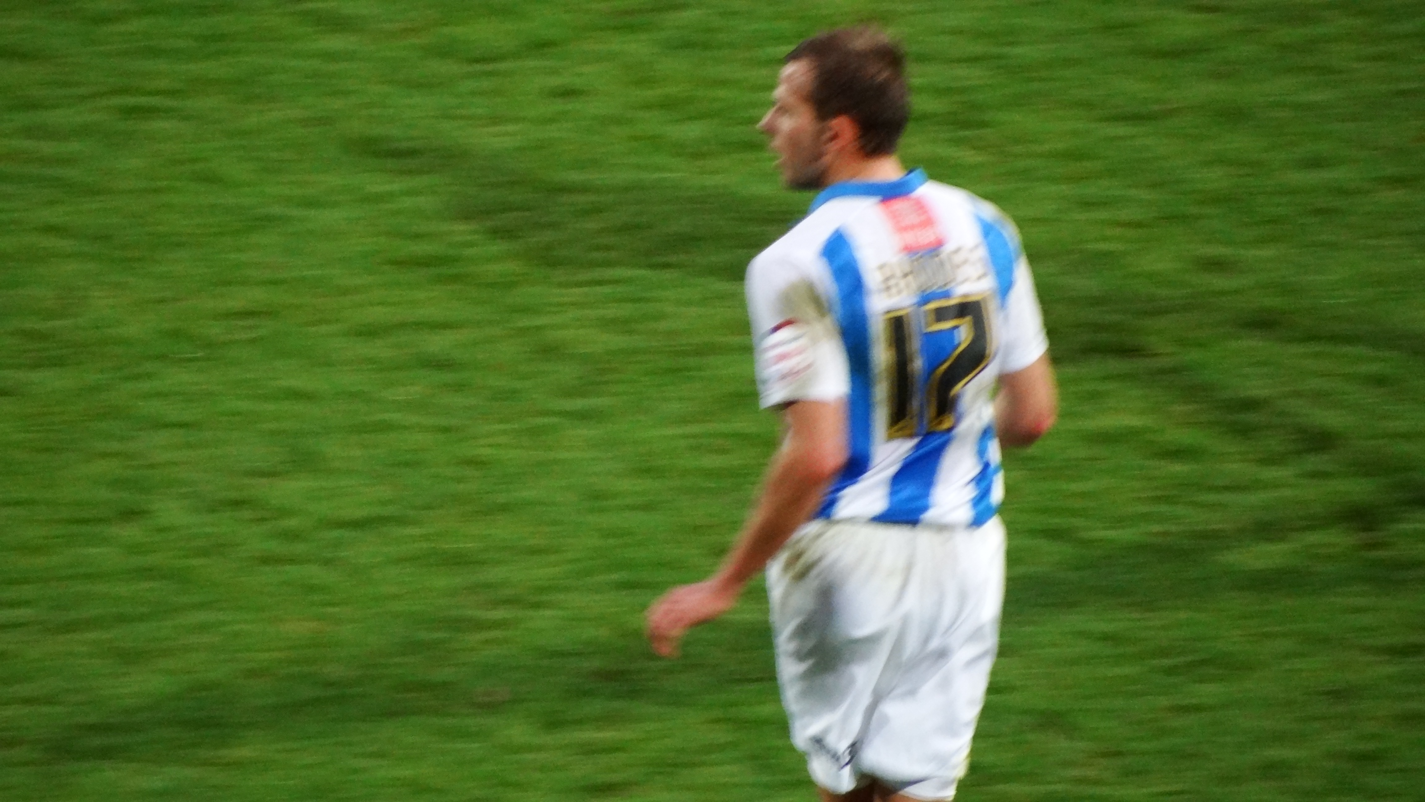 Jordan Rhodes with the shirt of Huddersfield Town